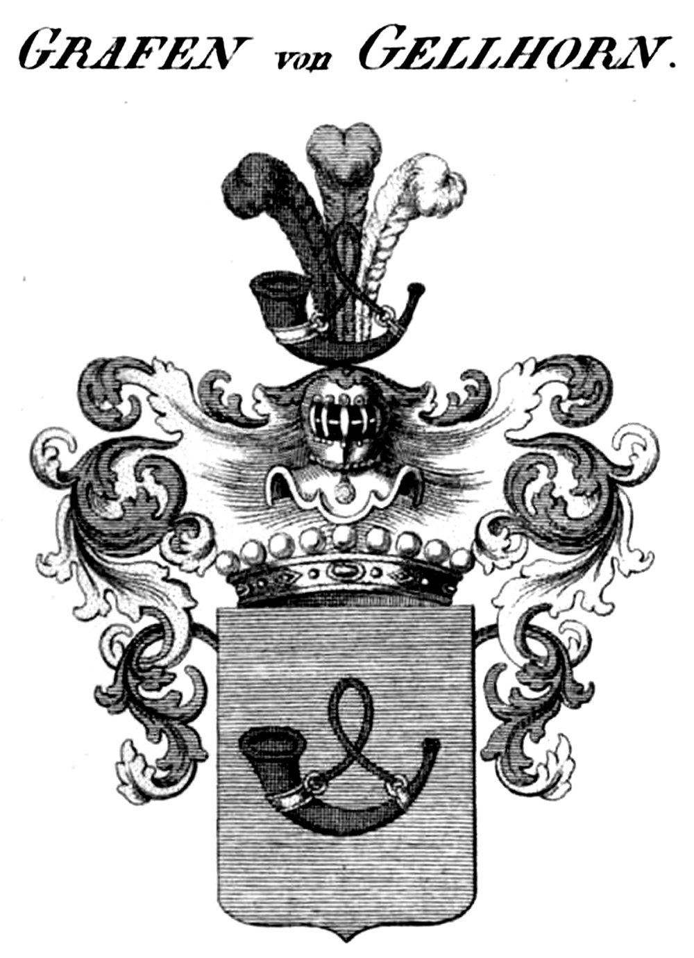 Wappen Gellhorn - Tyroff HA.jpg